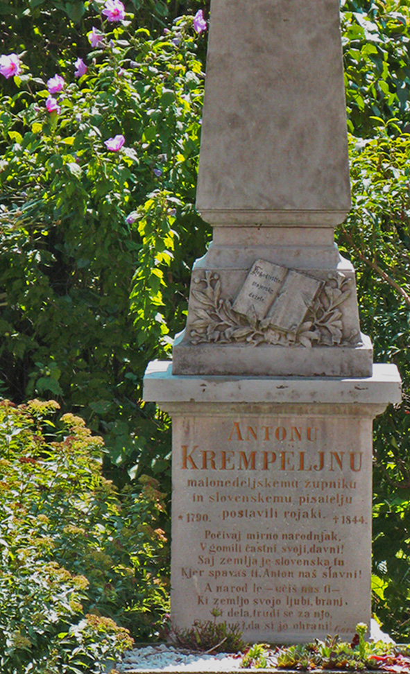 Anton Krempl Monument (1895)